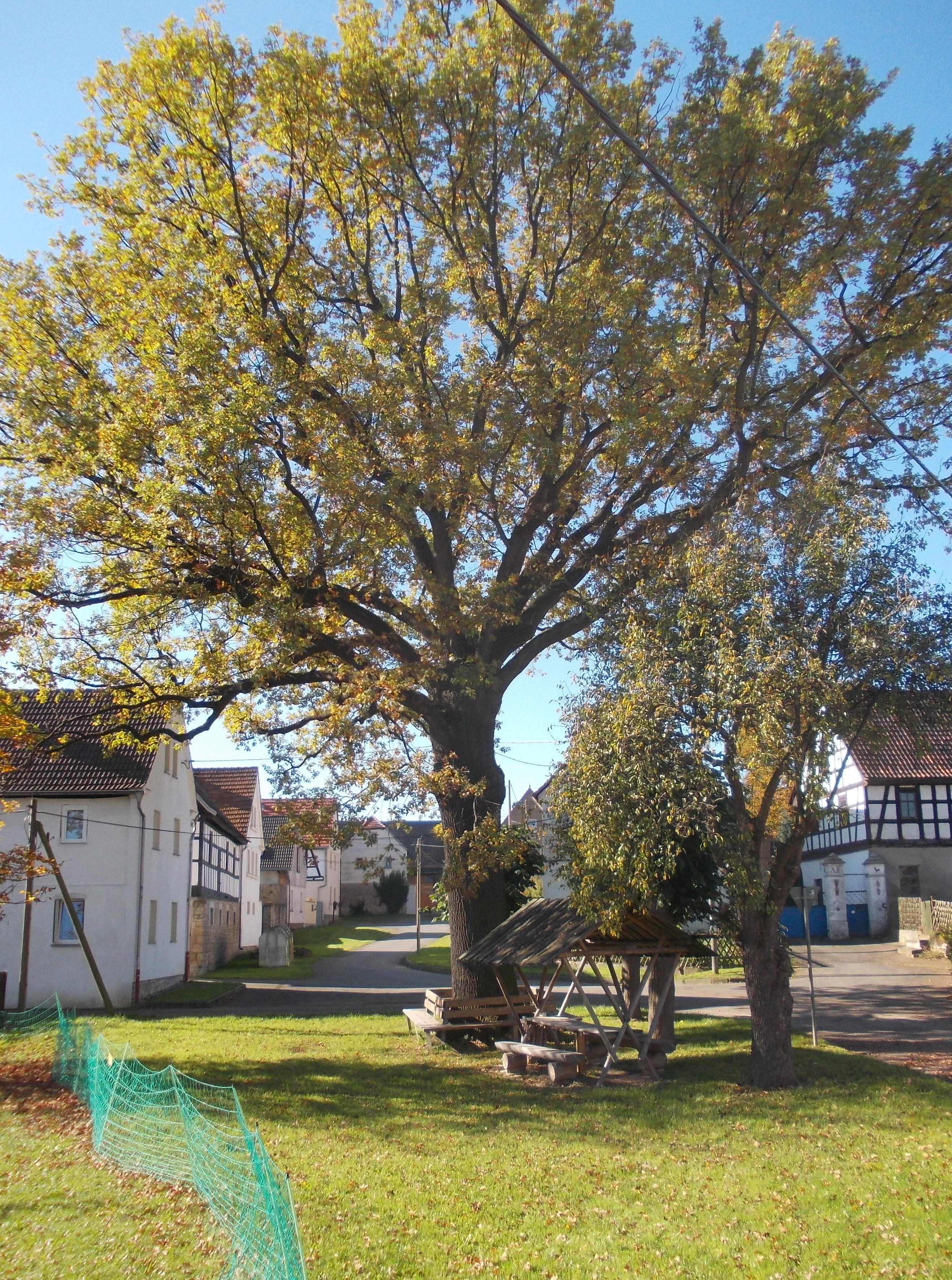 Oak in the village square of Rusitz (Gera, Thuringia)